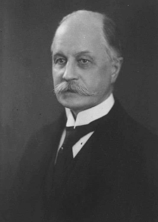 Photograph of the Finnish mathematician and politician Leonard Hjelmman (1869–1952).